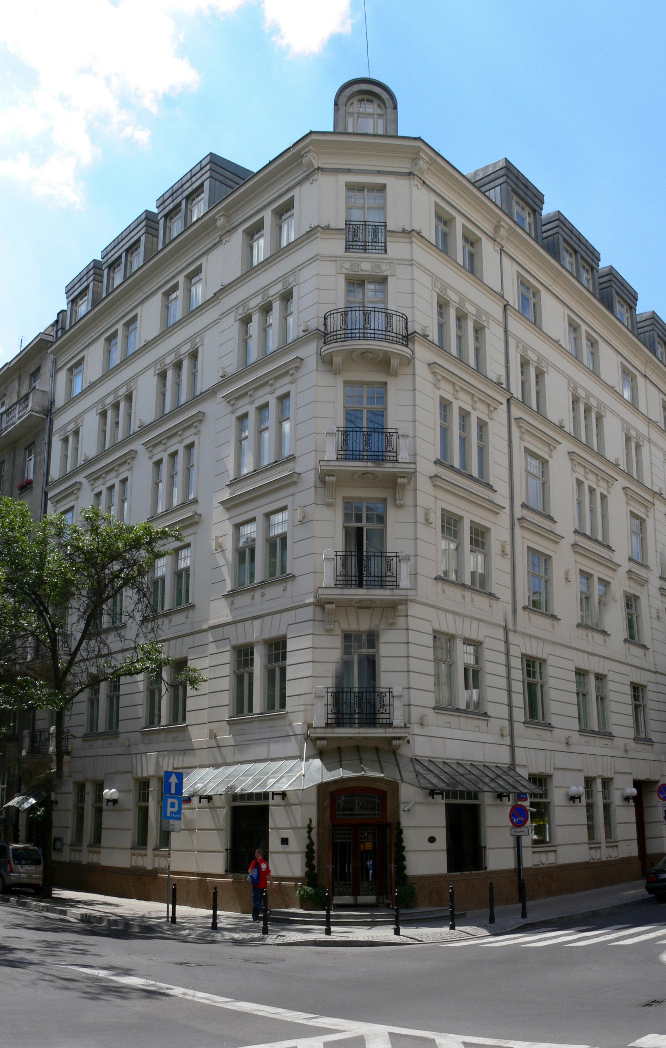 Hotel Rialto in Warsaw